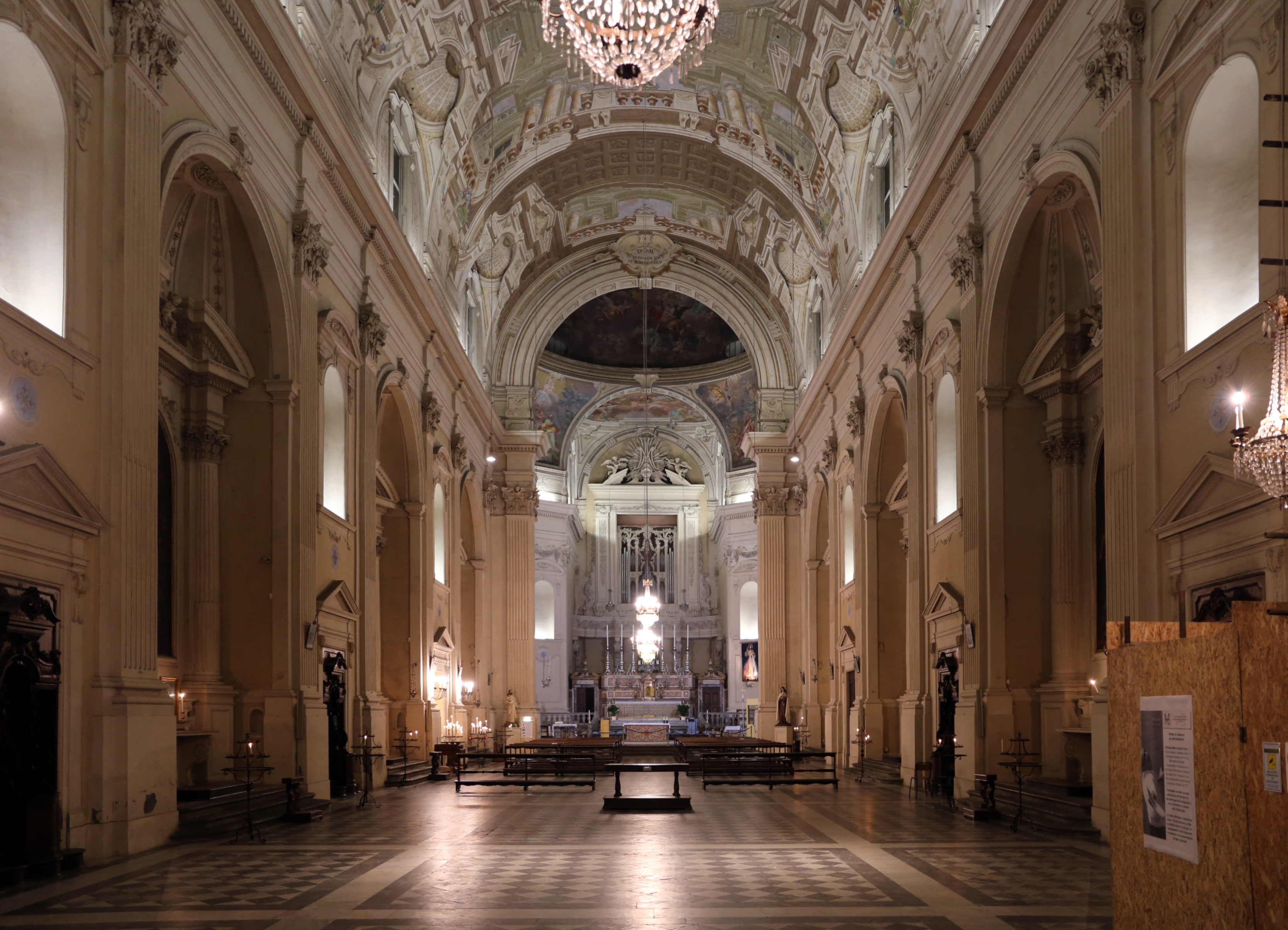 Florence, miscellany